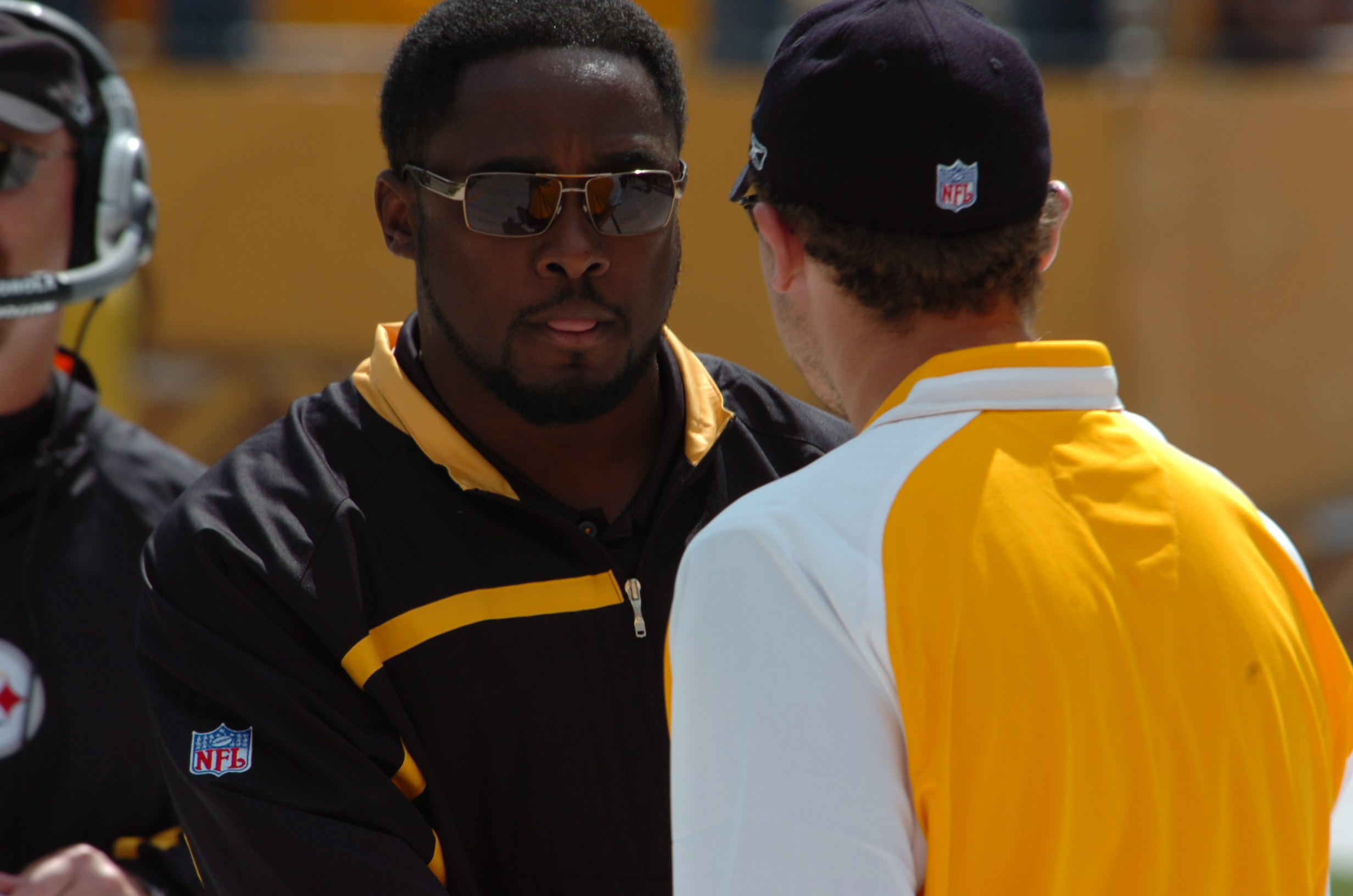 Pittsburgh Steelers coach Mike Tomlin - September 16, 2007